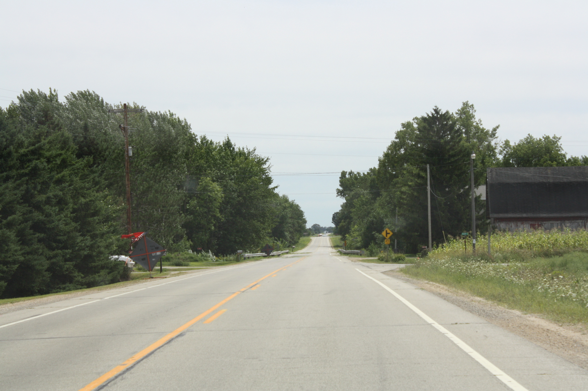 Looking south at downtown Krakow, Wisconsin in Shawano County along Wisconsin Highway 32.